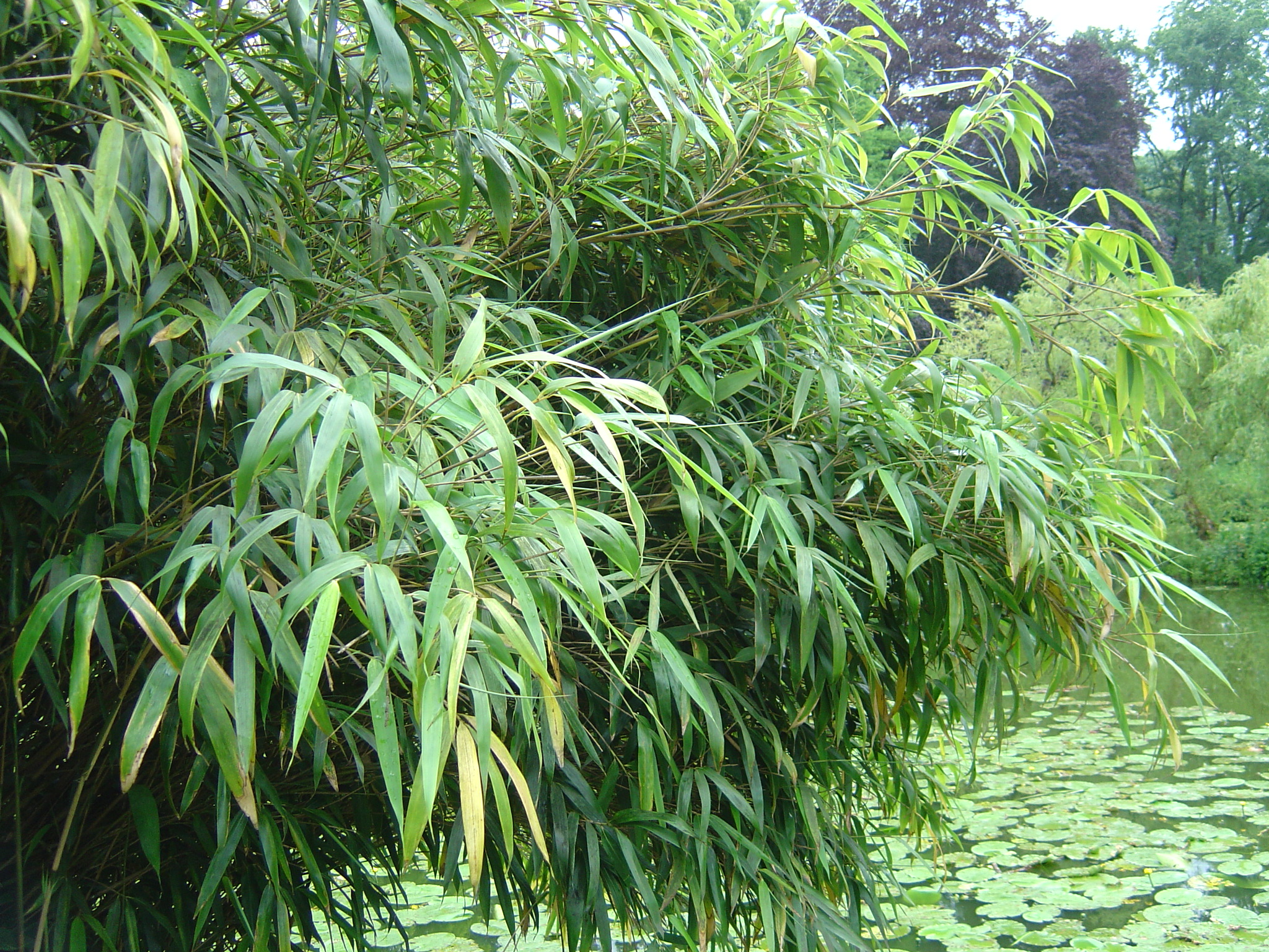 Photograph of Fargesia nitida (labeled as Sinarundinaria nitida) taken at the botanical garden in Münster, Germany